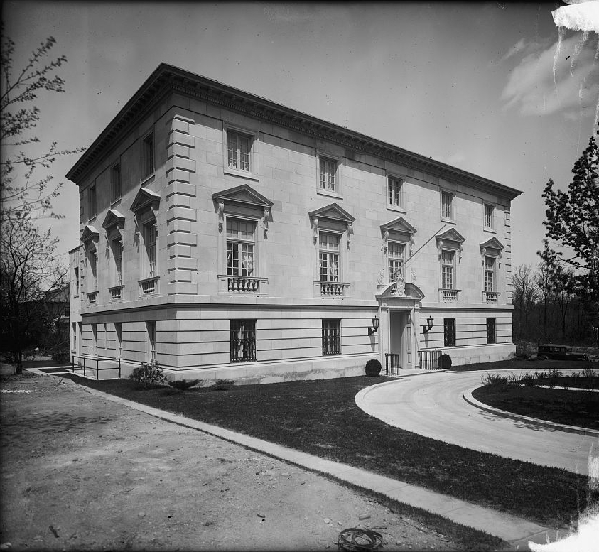 The Norwegian embassy at Washington, DC